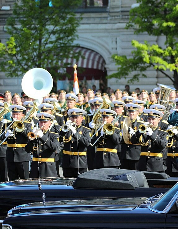 A Russian Navy Band on Red Square in 2018.